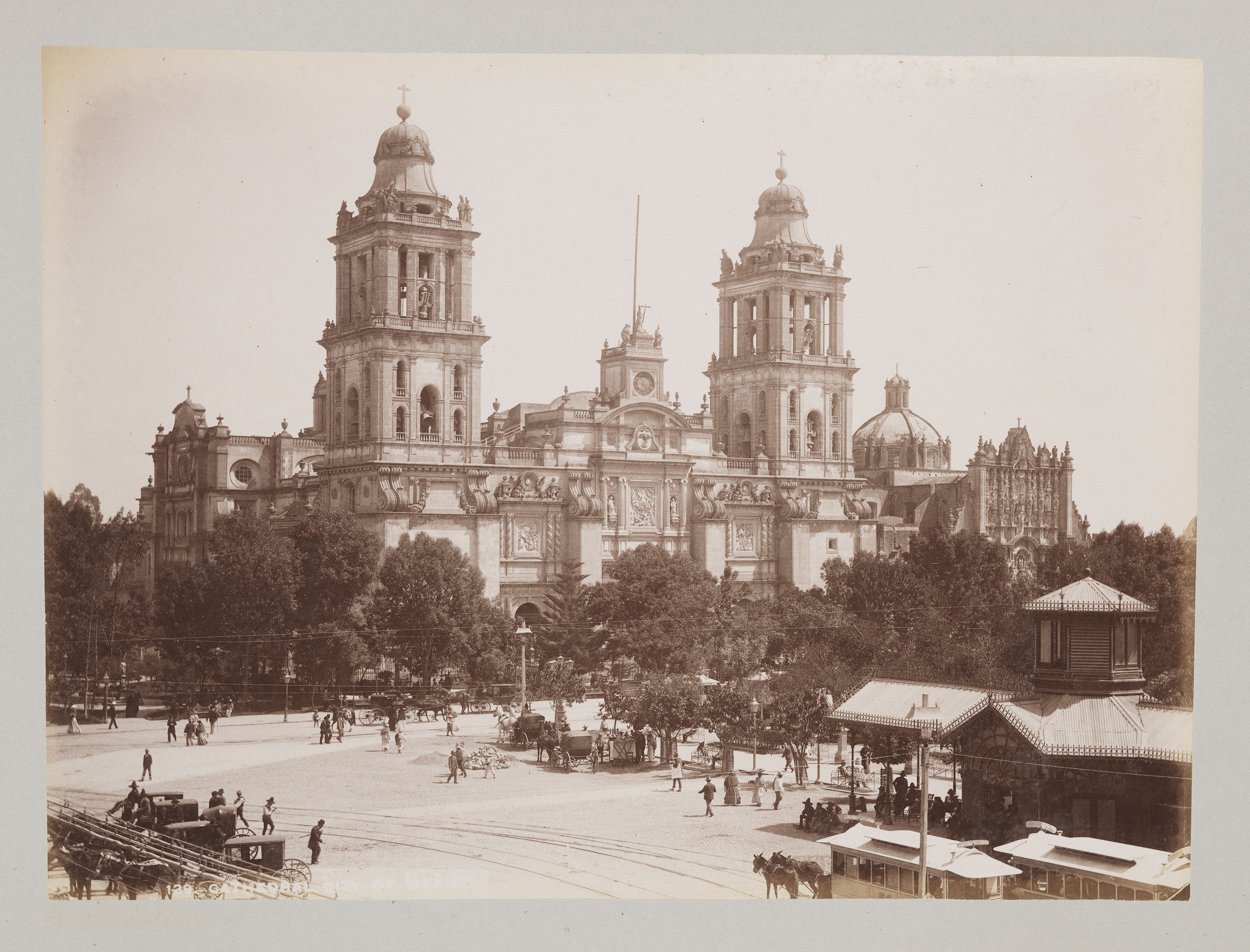 Title: Cathedral, City of Mexico. Creator: Unknown Date: ca. 1897 Part of: Mexico, 1897/ Place: Mexico City, Mexico Description: This is one of 175 photographs in a tourist album entitled, 'Old Mexico, 1897,' collected by F. M. White. Physical Description: 1 photographic print: gelatin silver, part of 1 volume (175 gelatin silver prints); 18 x 25 cm on 27 x 36 cm mount File: ag1982_0028_037_opt.jpg Rights: Please cite DeGolyer Library, Southern Methodist University when using this file. A high-resolution version of this file may be obtained for a fee. For details see the web page. For other information, . For more information and to view the image in high resolution, View Mexico - Photographs, Manuscripts, and Imprints